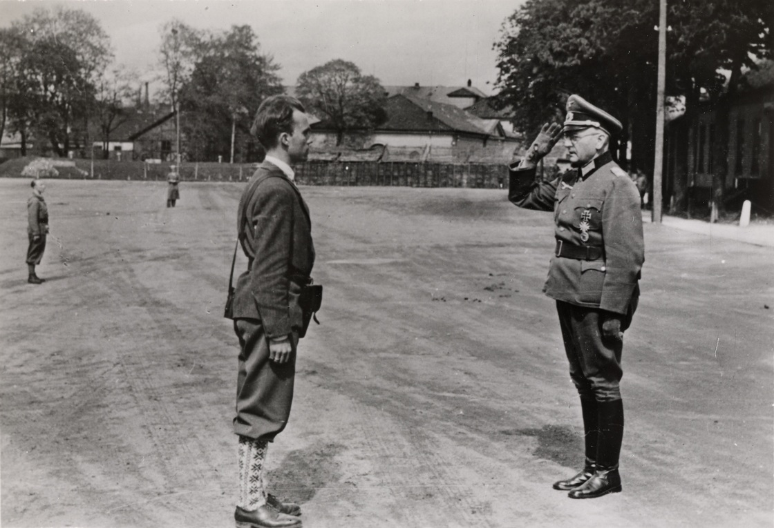 The surrender of Akershus Fortress in Oslo, Norway. The German garnison's commander Major Josef Nichterlein and his aide Captain Hamel handing the fortress over to the Norwegian resistance movement's Terje Rollem 11th of May 1945.